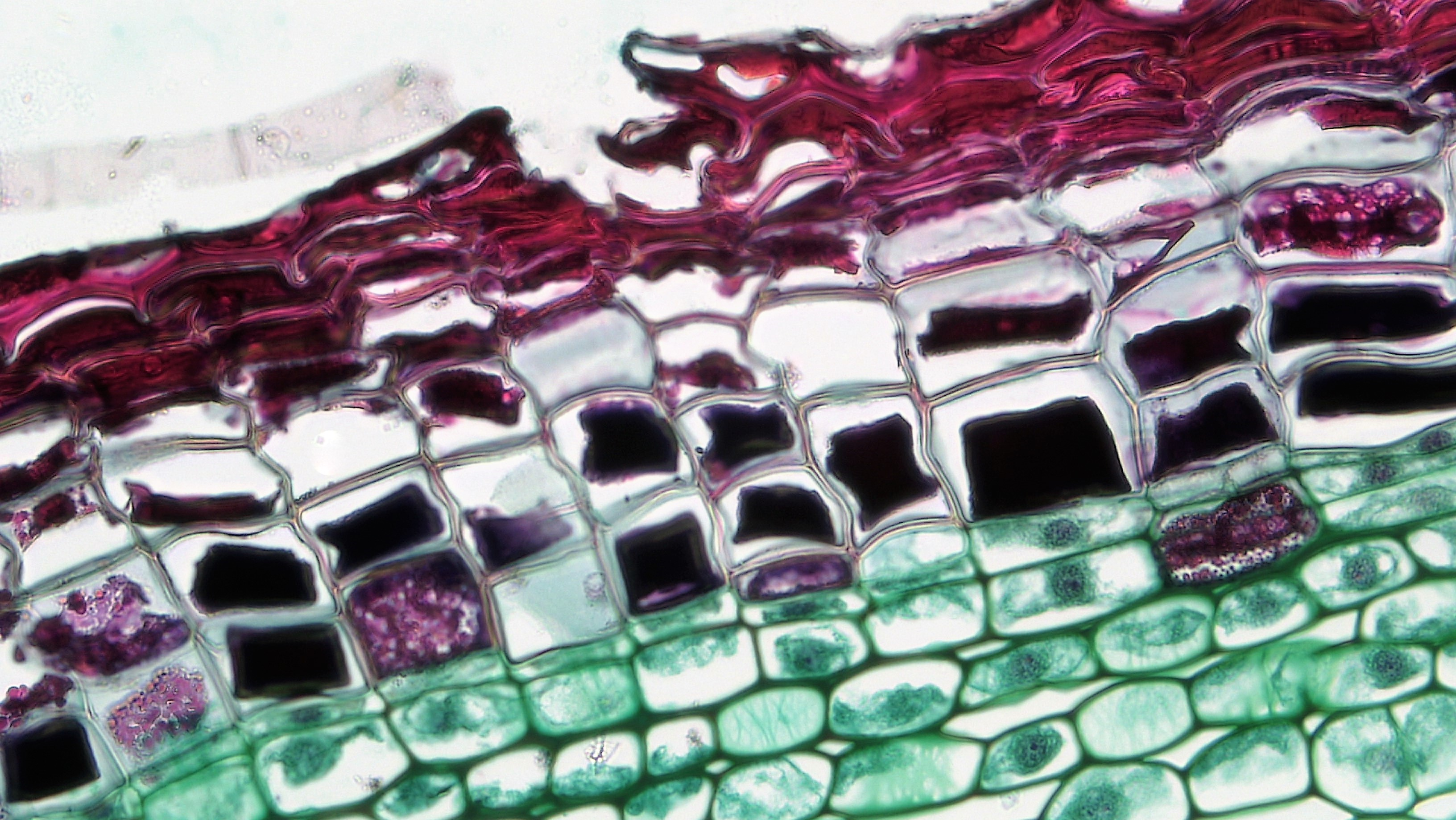 cross section: Sambucus stem magnification: 400x A one-year stem of Sambucus demonstrates the differentiation of the upper cortex in tissues of the periderm. During the first year of growth the epidermis is stretched laterally by the expansion of secondary xylem, phloem and cambium. The epidermis is replaced by a protective secondary zone of cork rich periderm. Continual growth of the periderm keeps up with that of underling tissues allowing it to replace the functions of the degrading epidermis. The outermost layer of periderm consists of layers of cork cells, the phellem, which produce the waterproofing substance suberin. Cork cells are dead at maturity. Deep to the phellem is a layer of living green stained cork cambium or phellogen and just beneath that layers of cork parenchyma or phelloderm. Many cells in the periderm contain dark staining tannins. In certain areas the cork cambium over produces cork cells, resulting in the formation of ridges and deep cracks in the periderm. These deep fissures, or lenticels, permit gas exchange with tissues under the periderm.